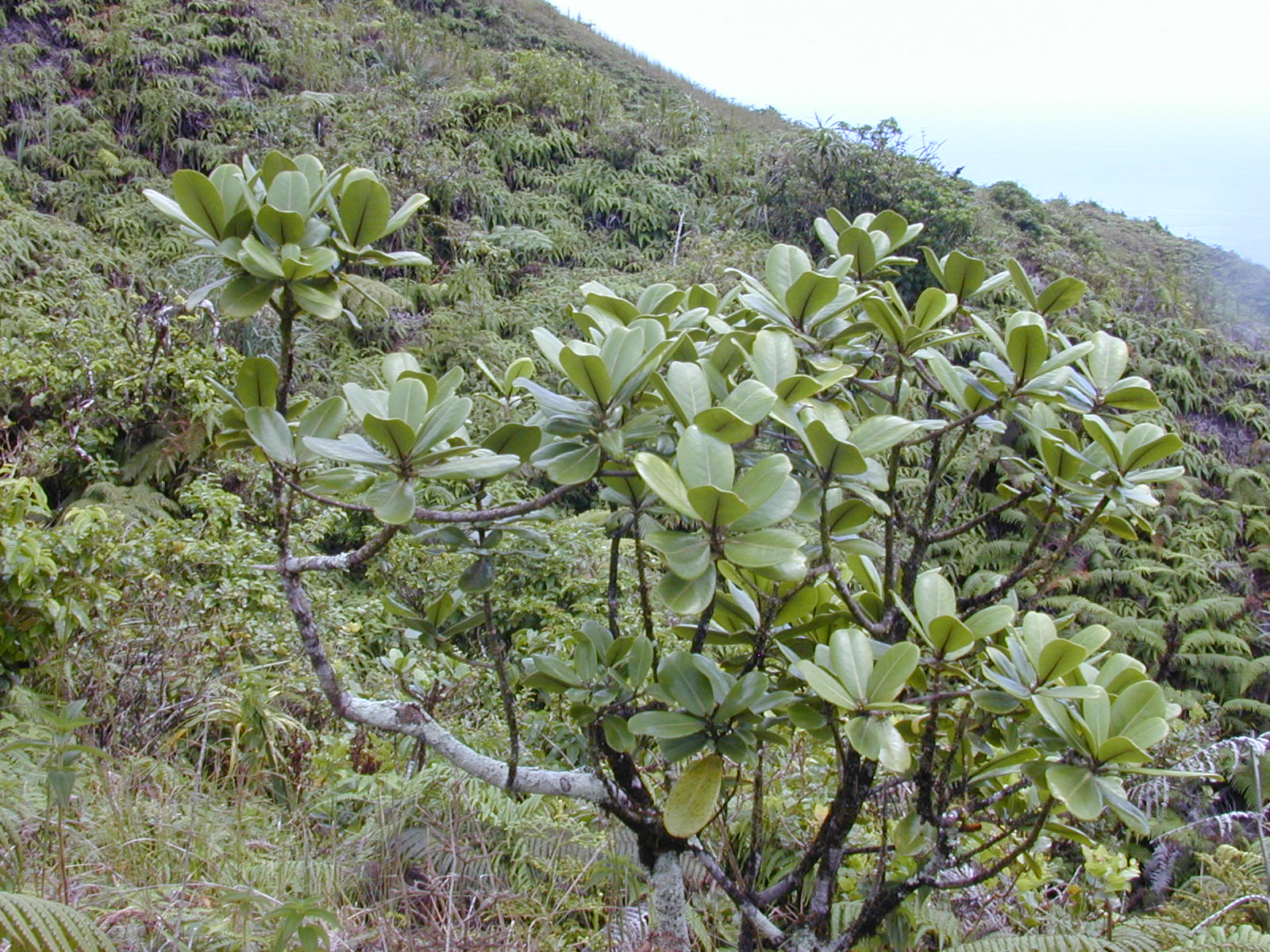 Melicope clusiifolia (habit). Location: Maui, Waihee Ridge Trail